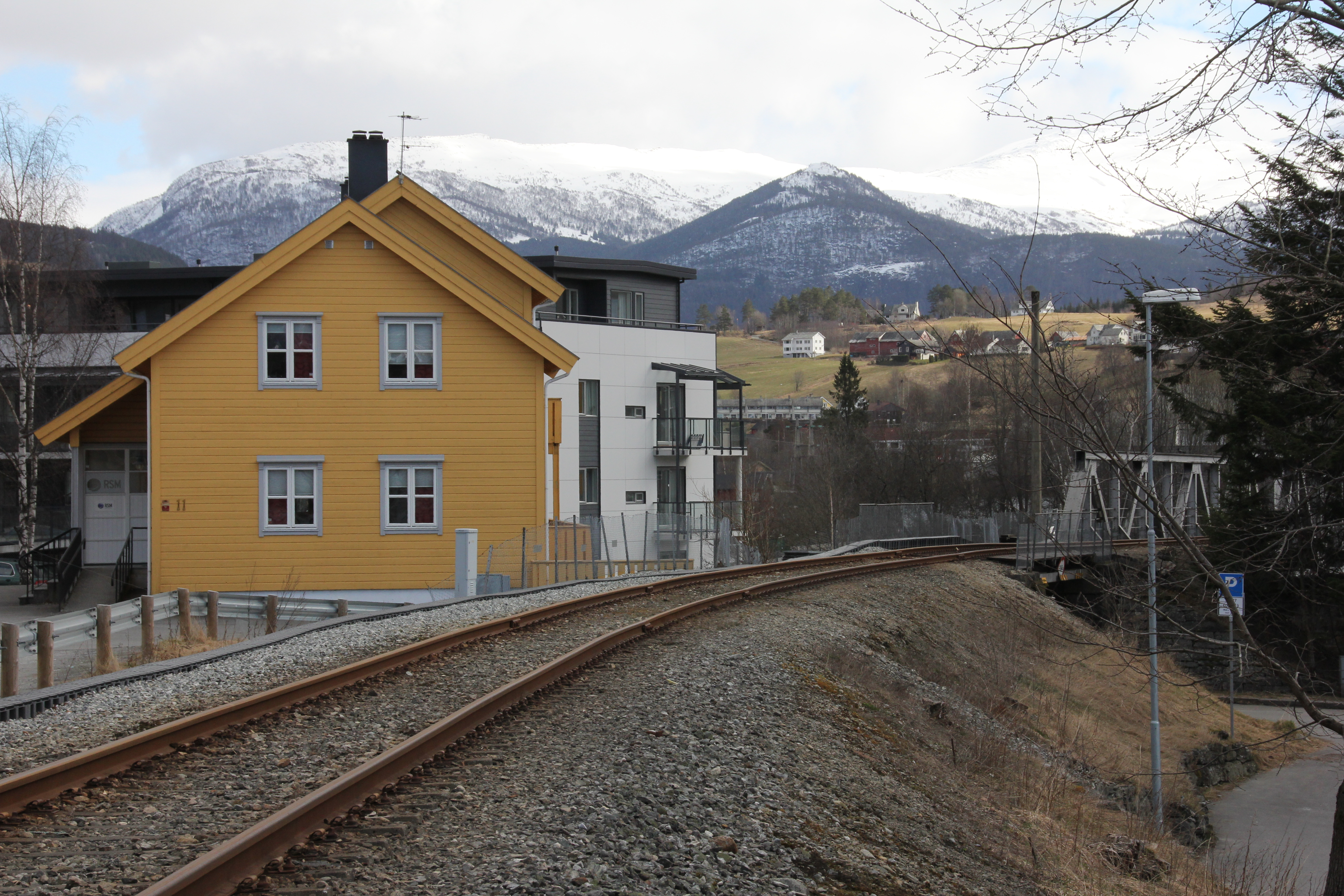 Remains of the Hardanger Line in the centre of Voss. Eastwards.